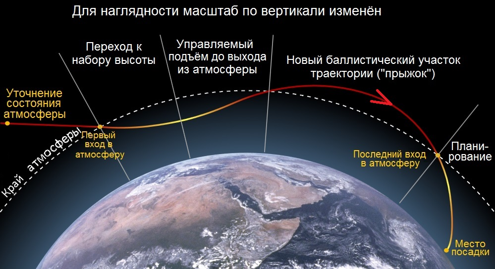 Atmospheric entry trajectory illustrating the basic phases of flight in a skip reentry. In this case, a single skip is used to extend the landing range of the vehicle.